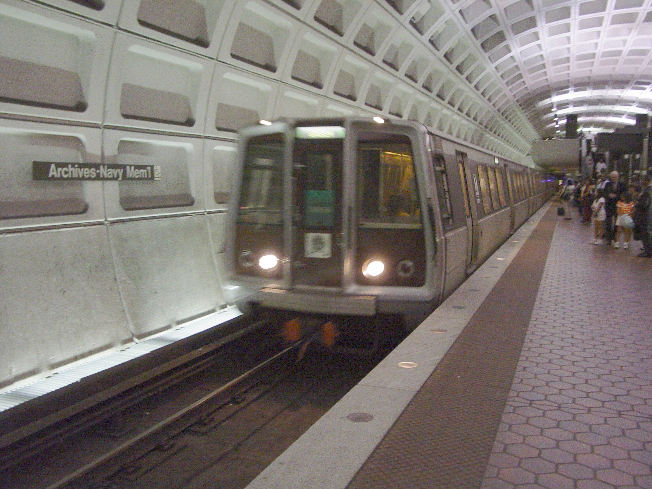 Archives-Navy Mem'l-Penn Quarter station